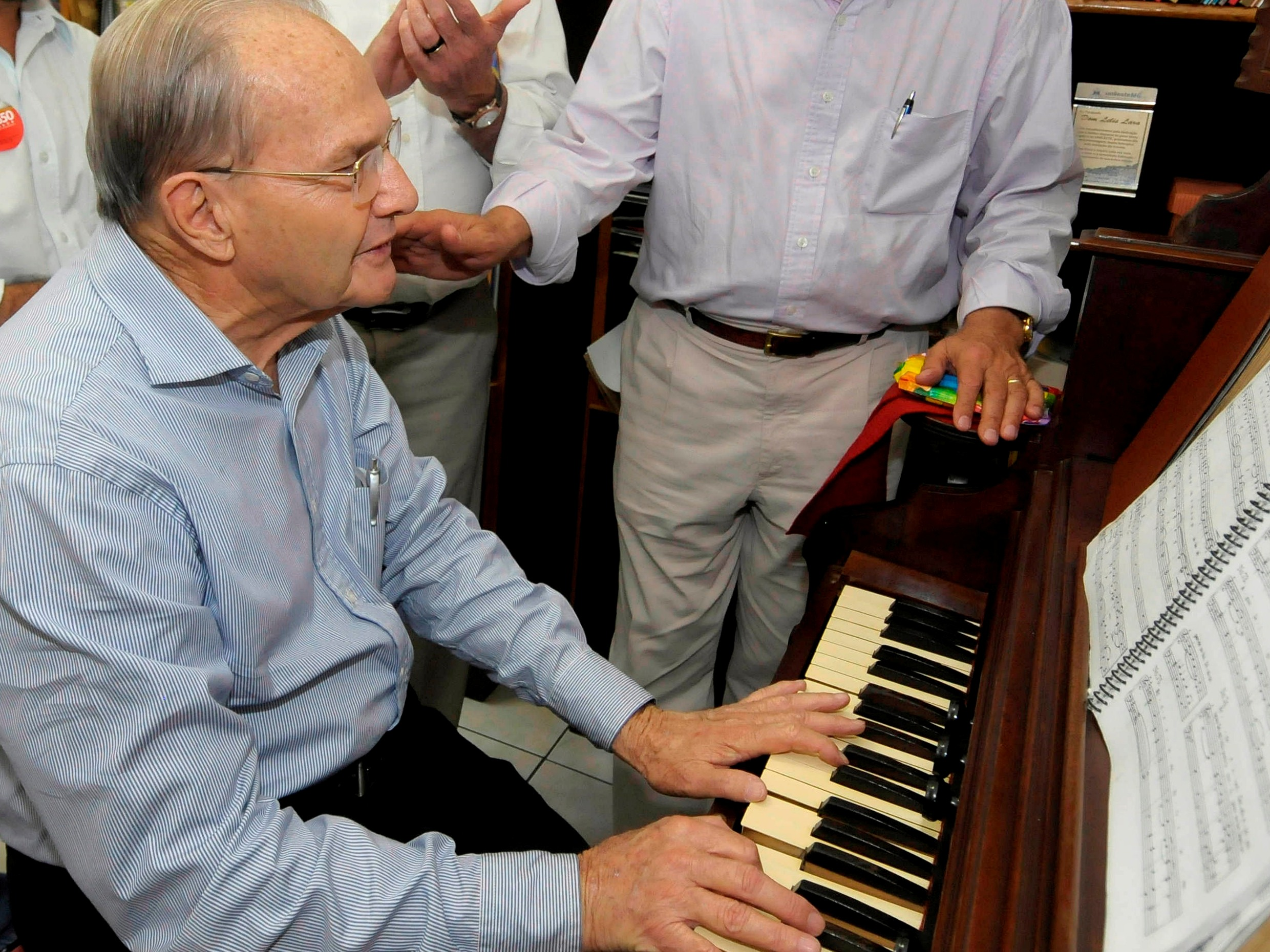 Don Lélis Lara, Bishop Emeritus of the Roman Catholic Diocese of Itabira–Fabriciano, in the House of the Congregation of the Most Holy Redeemer in Coronel Fabriciano, Minas Gerais, Brazil.